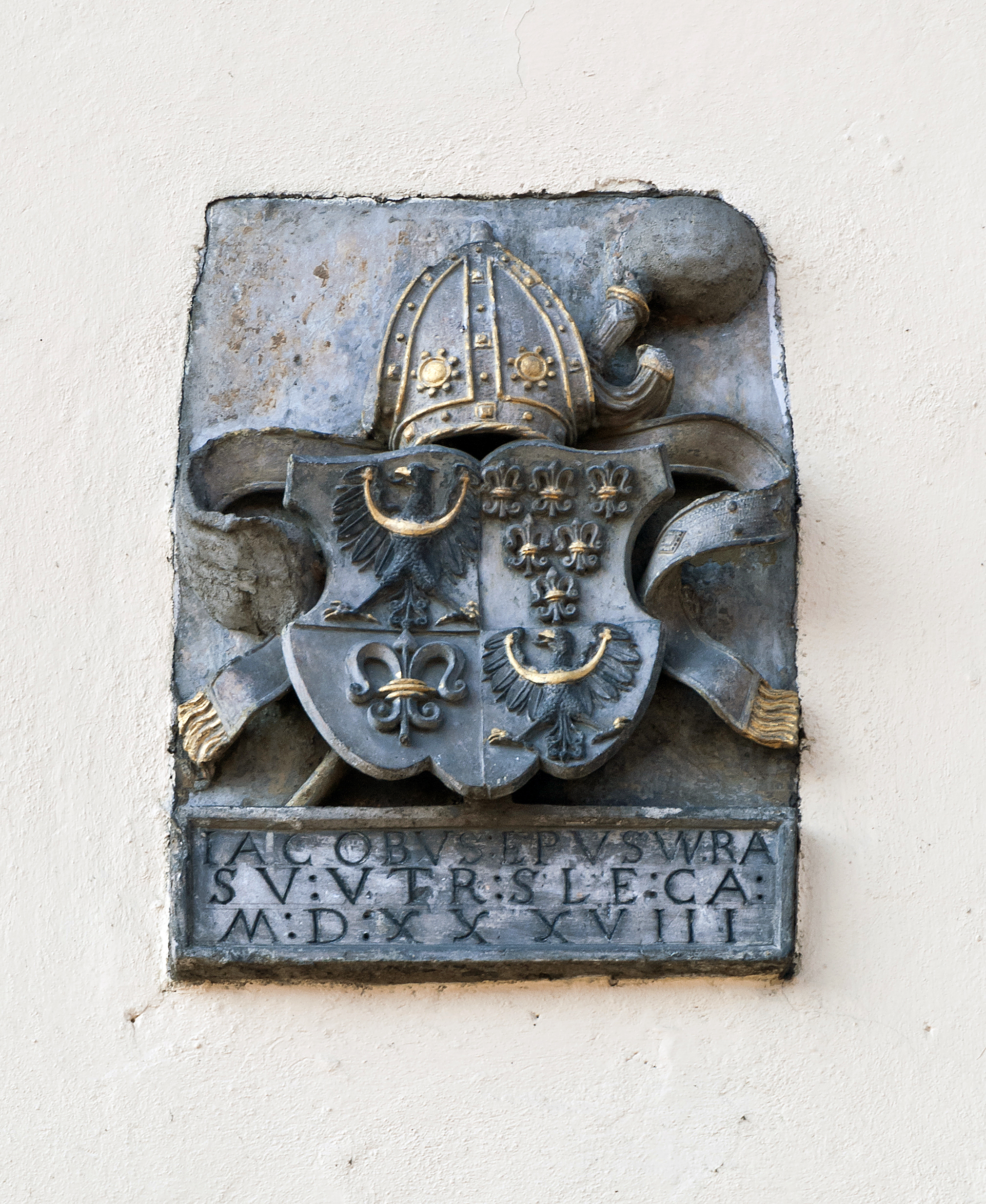 Town hall in Otmuchów, memorial of Jakub von Salza